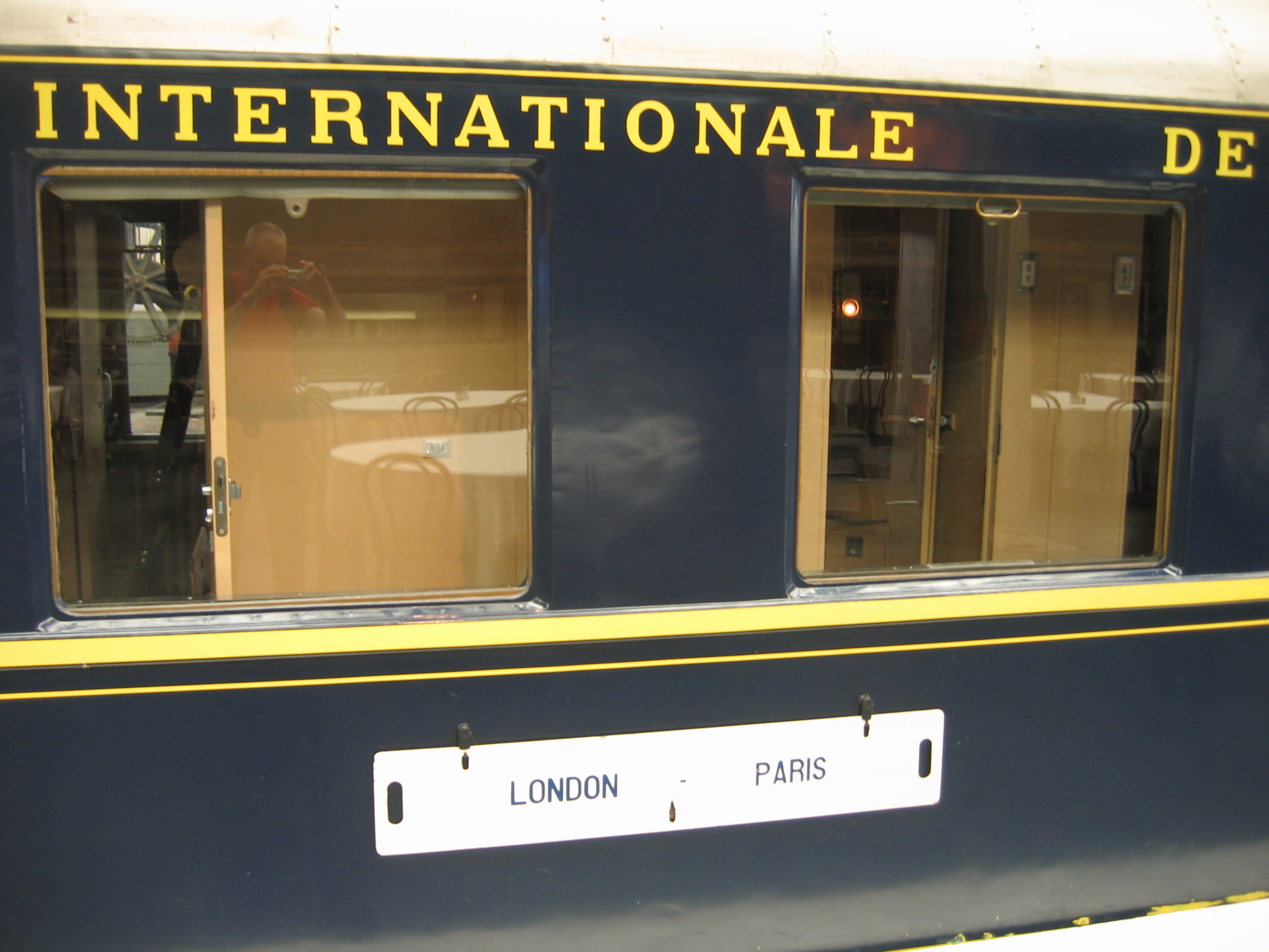 Sleeper Night Ferry